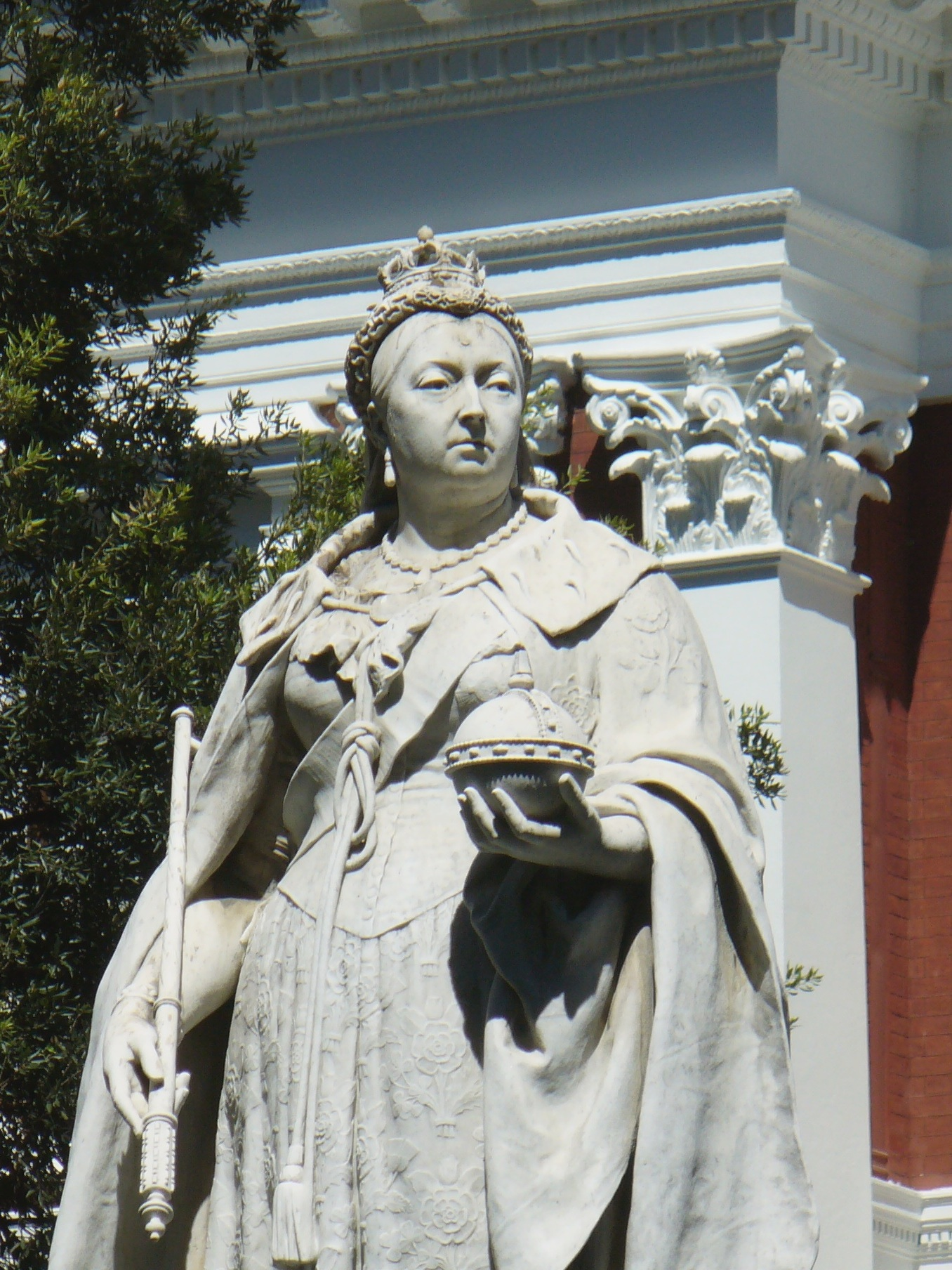 Queen Victoria